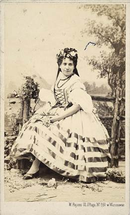 Polish actress Wiktoryna Bakałowiczowa (1835-1874)